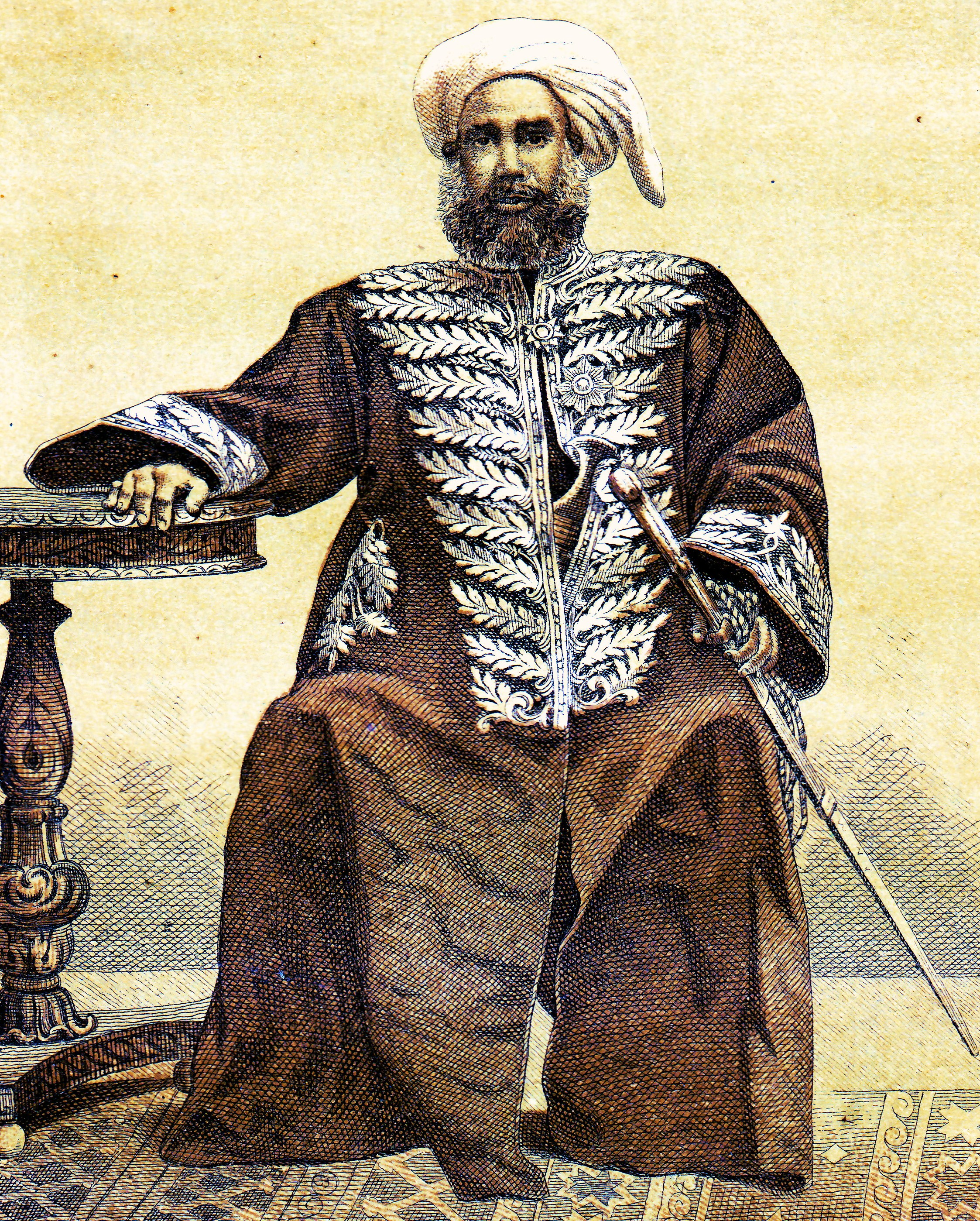 Habib Abdoe'r Rahman Alzahir